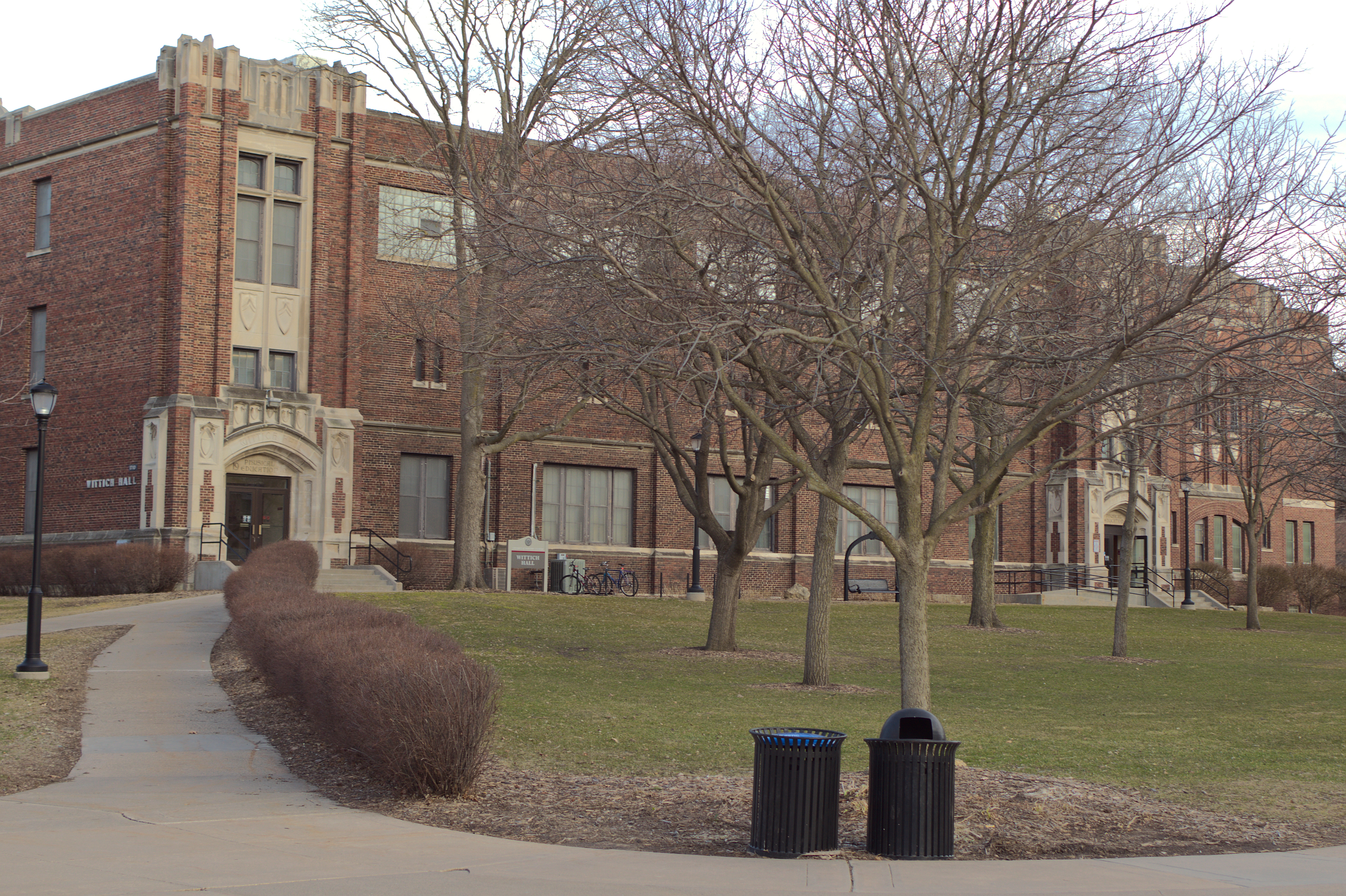 Wittich Hall is one of the oldest buildings on campus and is listed on the National Register of Historic Places